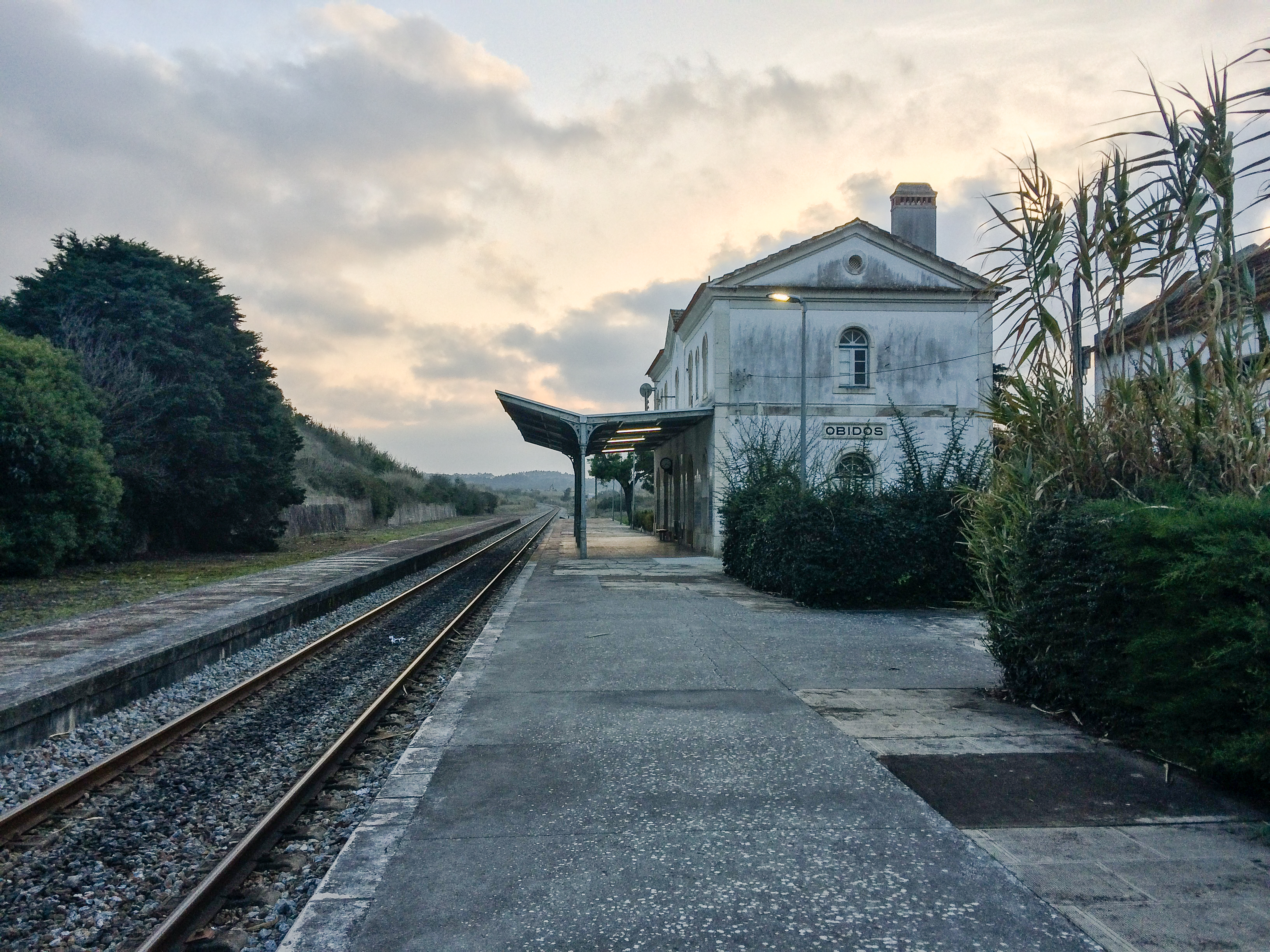 General view of the Óbidos train station on Oeste railway line, Portugal